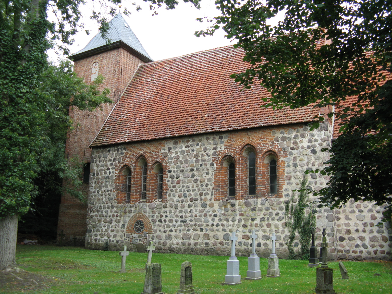 Church in Gägelow, district Parchim, Mecklenburg-Vorpommern, Germany